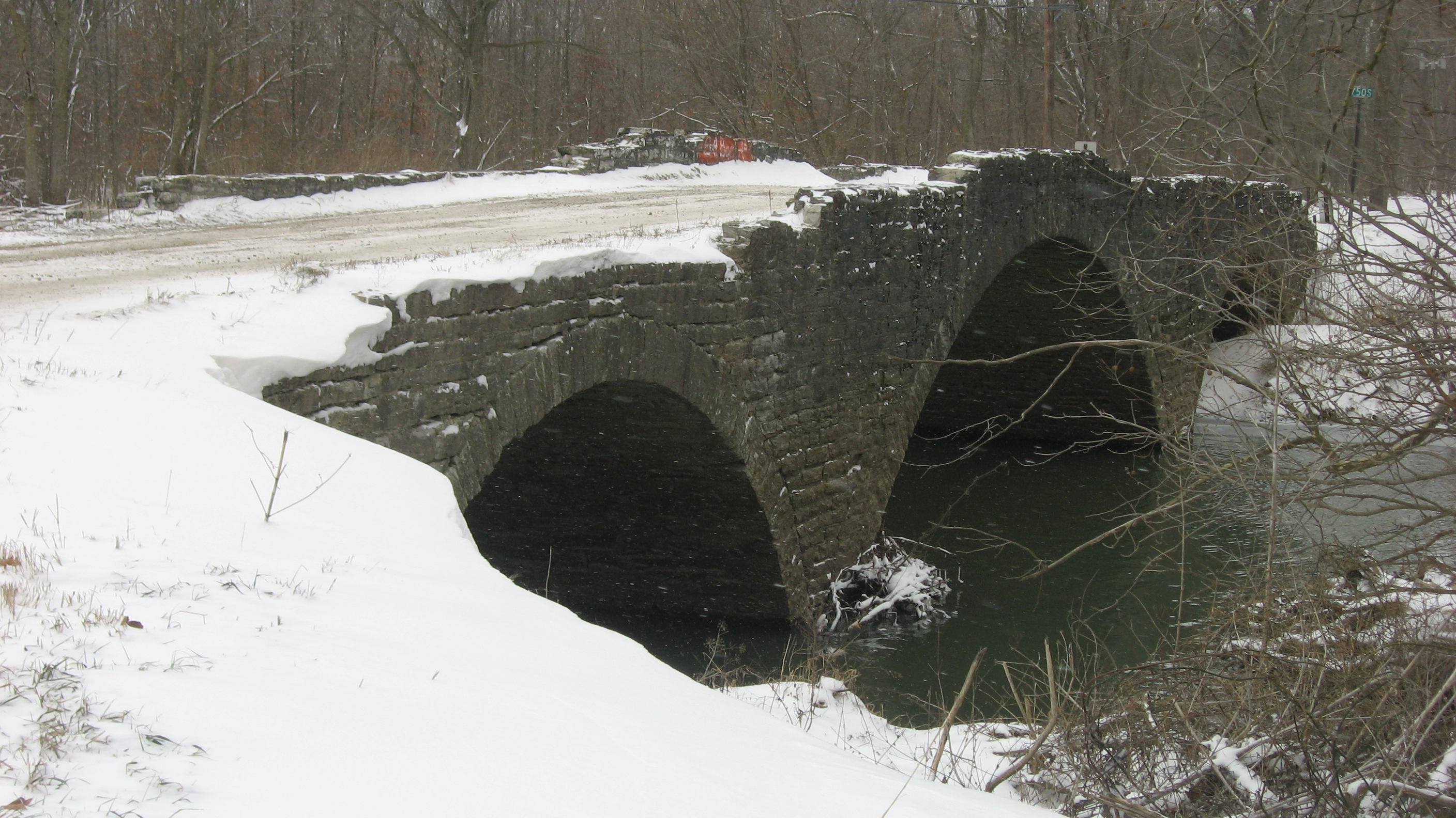 Eastern (upstream) side of the Scotland Bridge, which carries Lost Road over Sugar Creek near Mechanicsburg across the border between Boone County (foreground) and Clinton County (background) in the U.S. state of Indiana. The Boone County portion of the bridge is located in Clinton Township, while the Clinton County portion straddles the line between Jackson Township (left side) and Kirklin Township (right side). Built in 1901, the bridge is listed on the National Register of Historic Places.